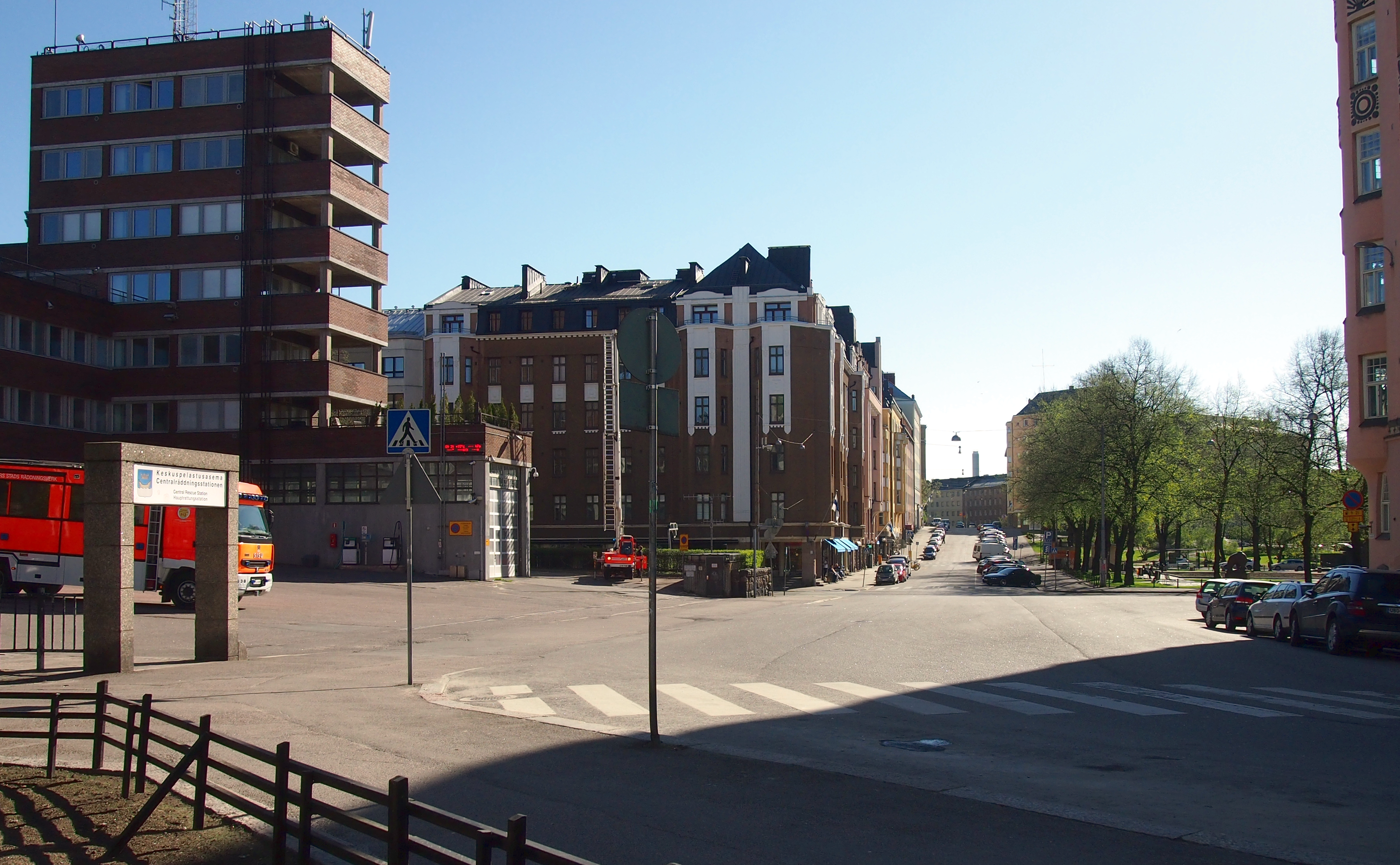 The street Agricolankatu, Helsinki, Finland